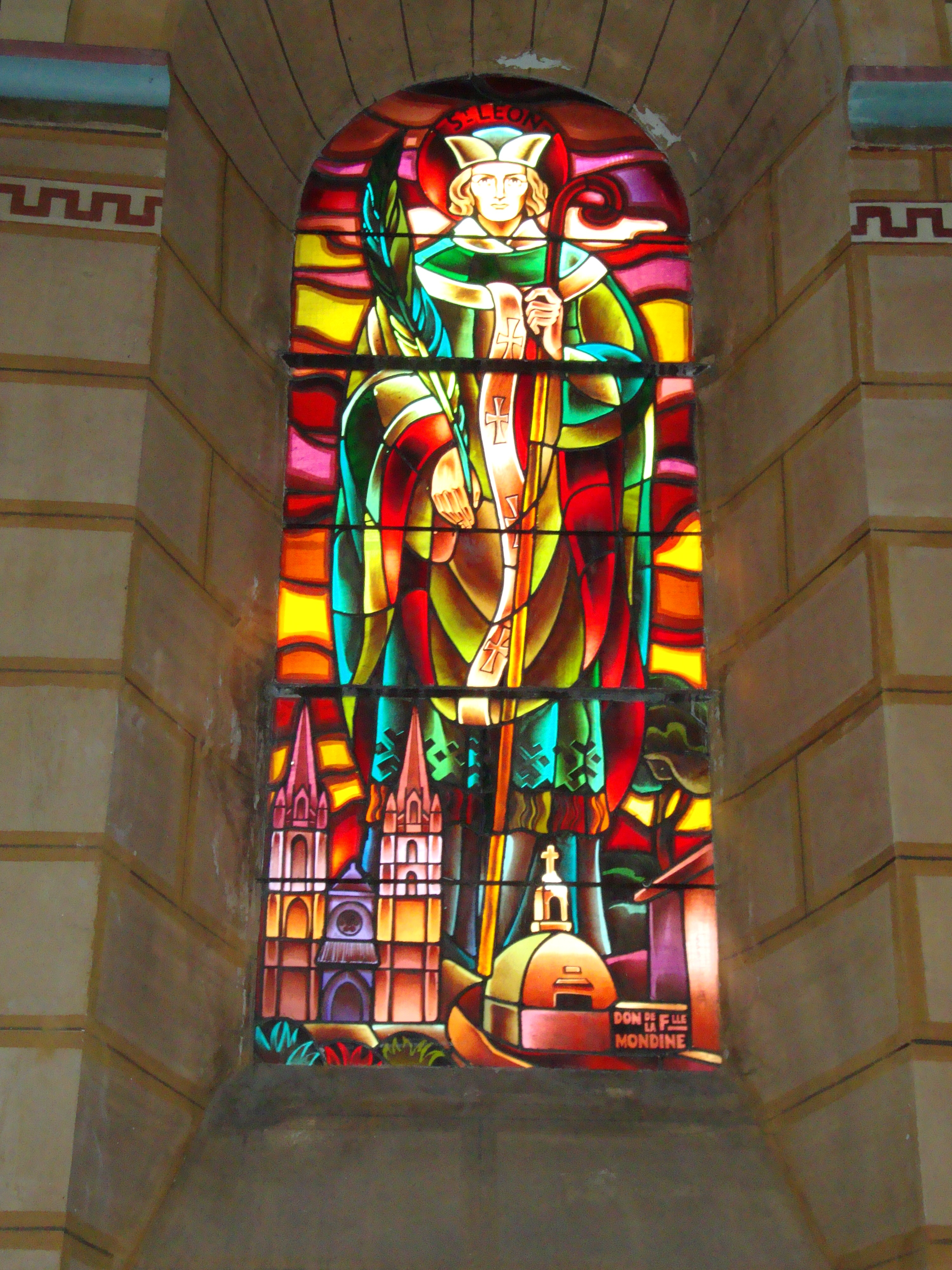 Bedous (Pyr-Atl, Fr) Church St.Michael stained glass window 2, representing Saint Leonard, patron saint of Bayonne